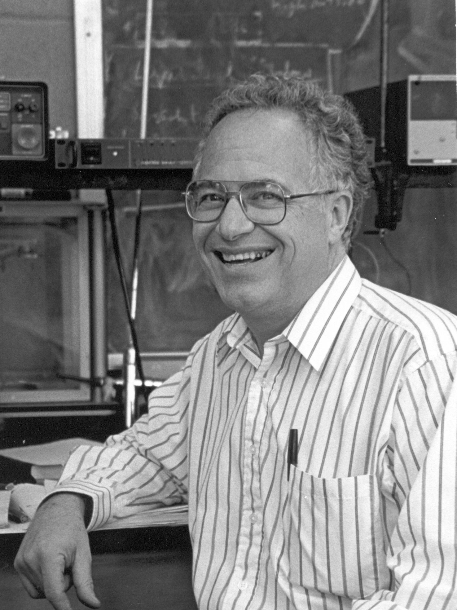 Michael doing what he loves (Physics)